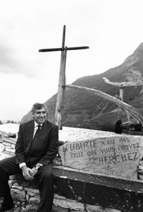 Petre Roman